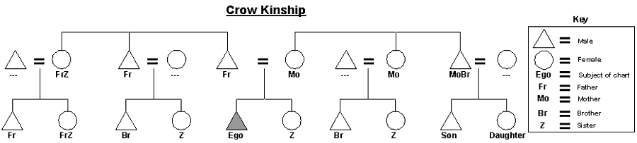 Graphic of the Crow kinship system, authored by the uploader.